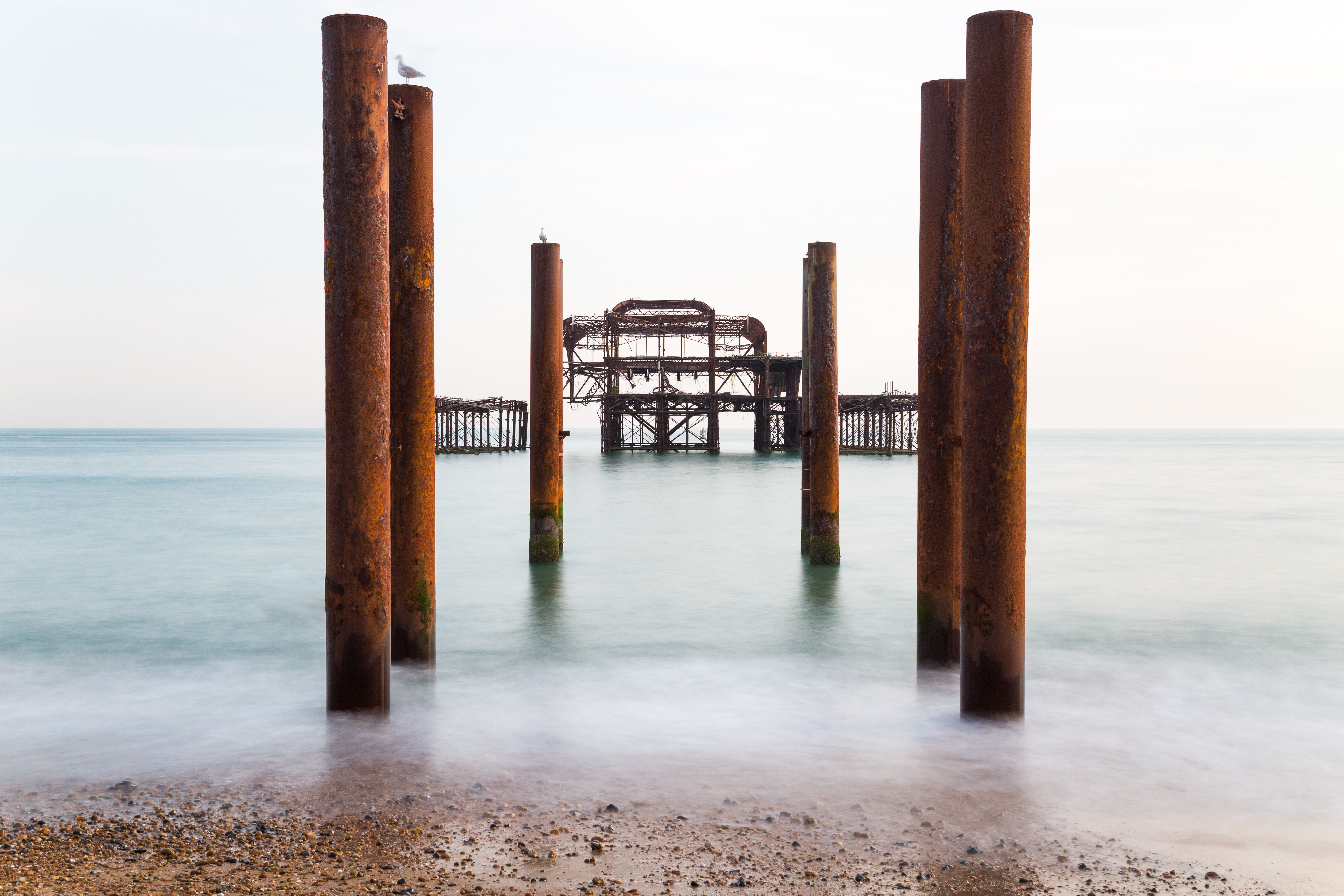 West Pier, Brighton, England